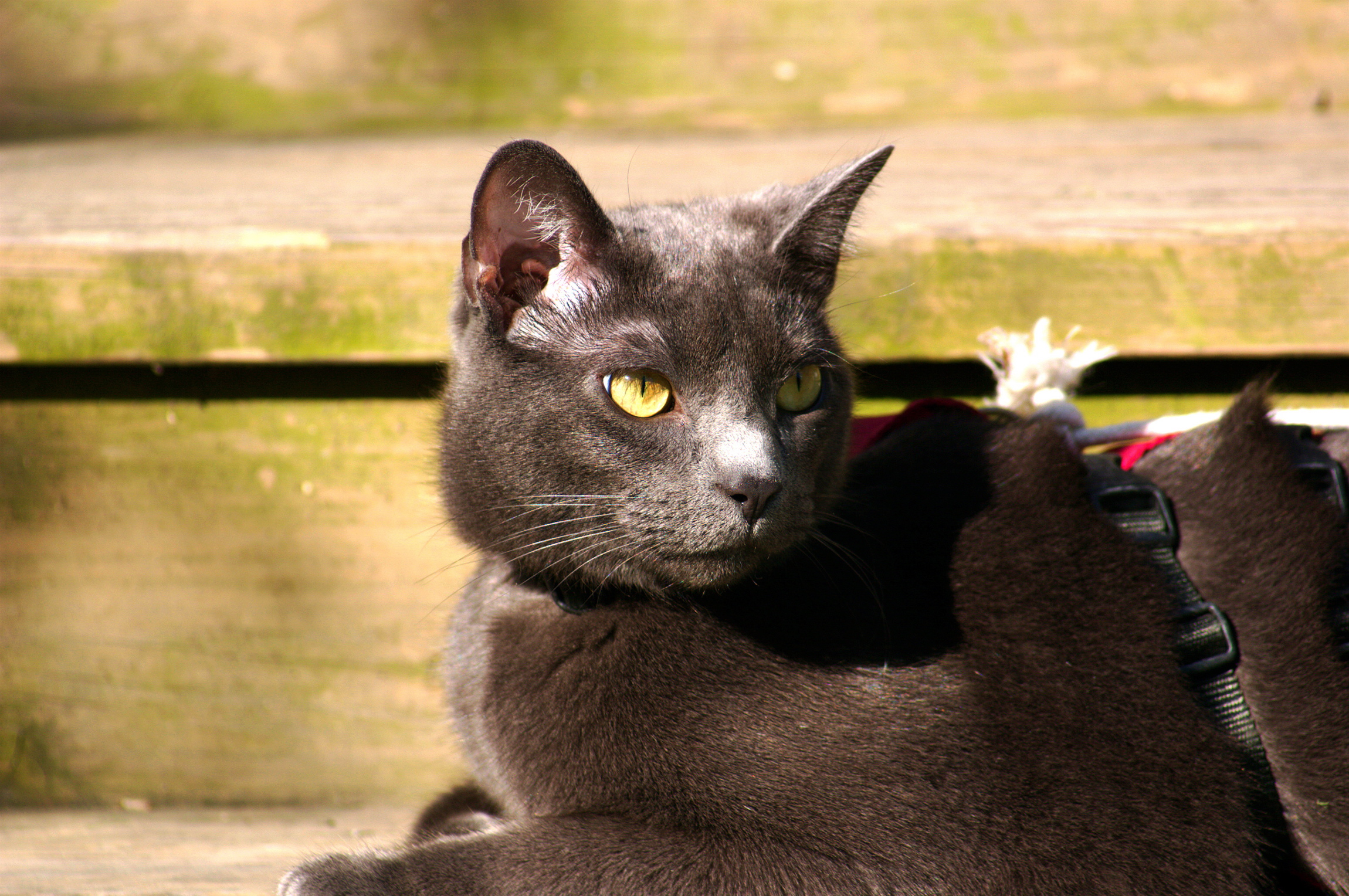 Kabir's Cat "Ramone" . Location of shot: Cincinnati, Ohio